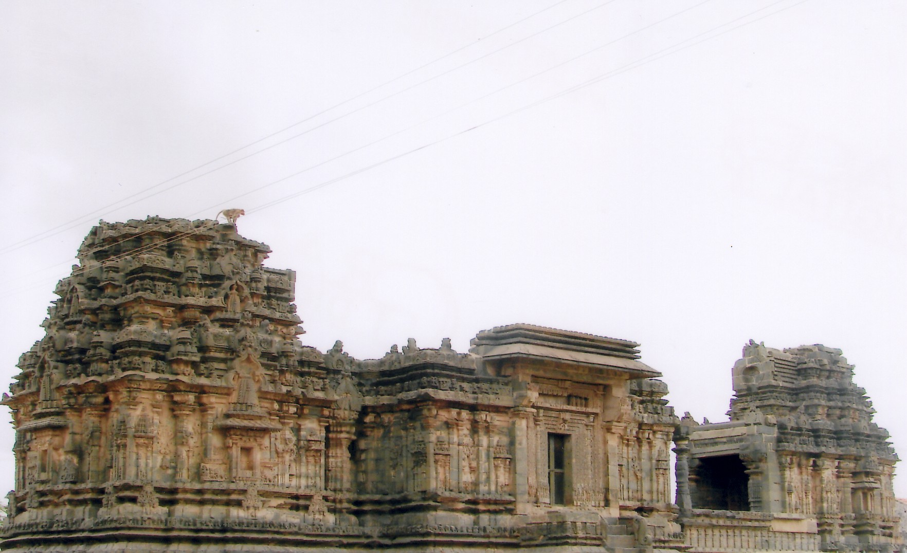 This image was taken at the Kasivisvesvara temple (also spelt Kasivishveshvara or Kashivishveshvara) in Lakkundi, Karnataka state, India. The temple is a 11th century Western Chalukya Empire construction during the reign of king Vikramaditya VI